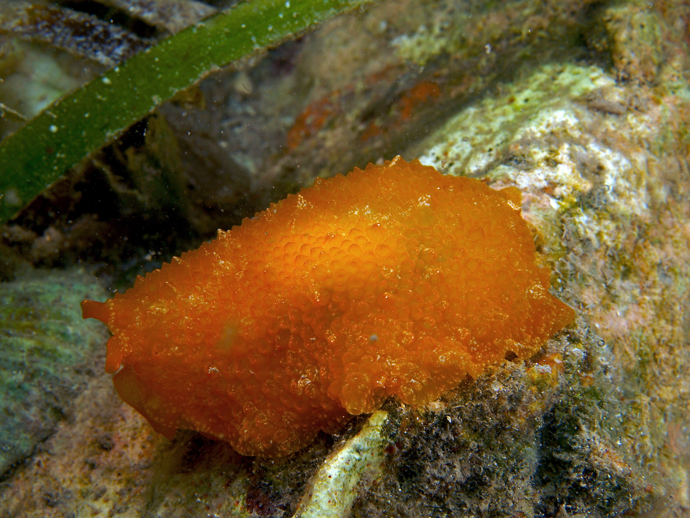 Pleurobranchus areolatus (Warty Sidegill Slug)